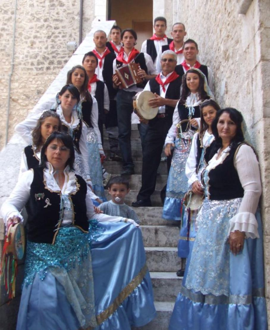 Griko (Greeks) of Bovesia, also known as Grecìa Calabra (Calabrian Greece), Aspromonte Calabria, Italy dressed in traditional clothing.